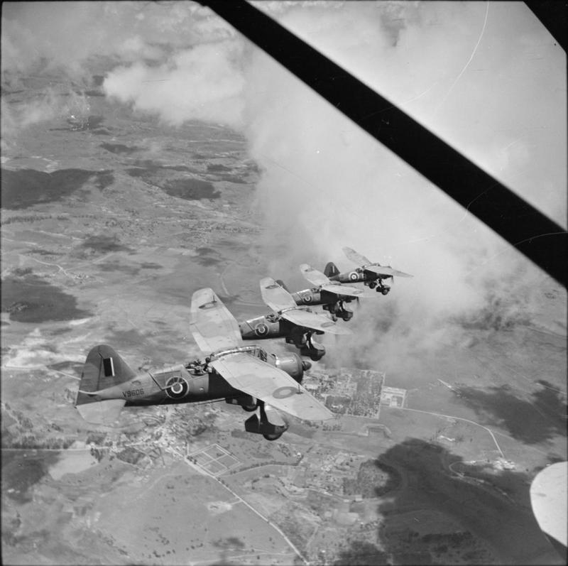 Royal Air Force Operations in Madagascar, 1942. Four Westland Lysander Mark IIIAs of No. 1433 Flight RAF, based at Ivato, Madagascar, in flight in starboard echelon formation over typical Madagascar countryside.